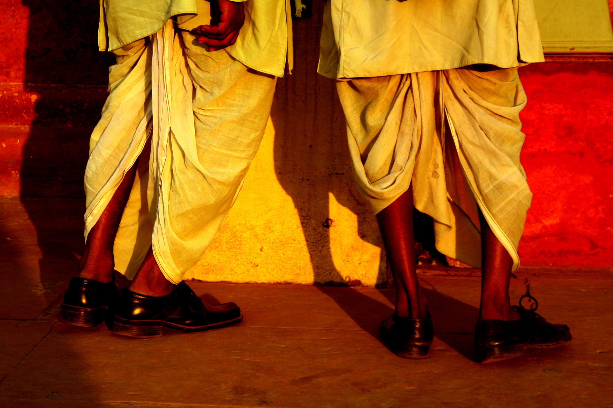 Two men wearing dhoti. Delhi, India. Photography by the NGO medapt